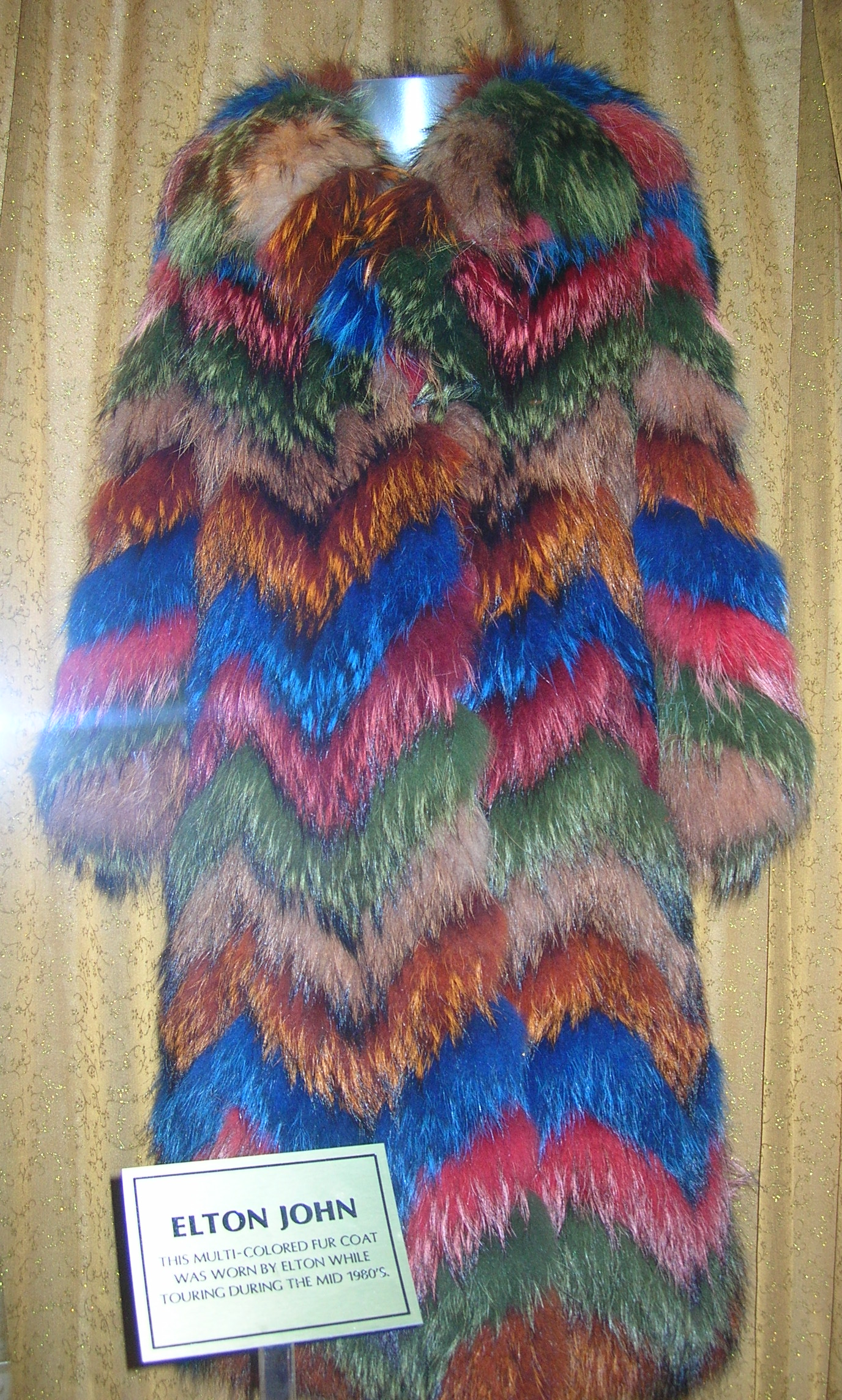 Elton John's fur coat on display at the Hard Rock Café, Hollywood in Universal City, California.